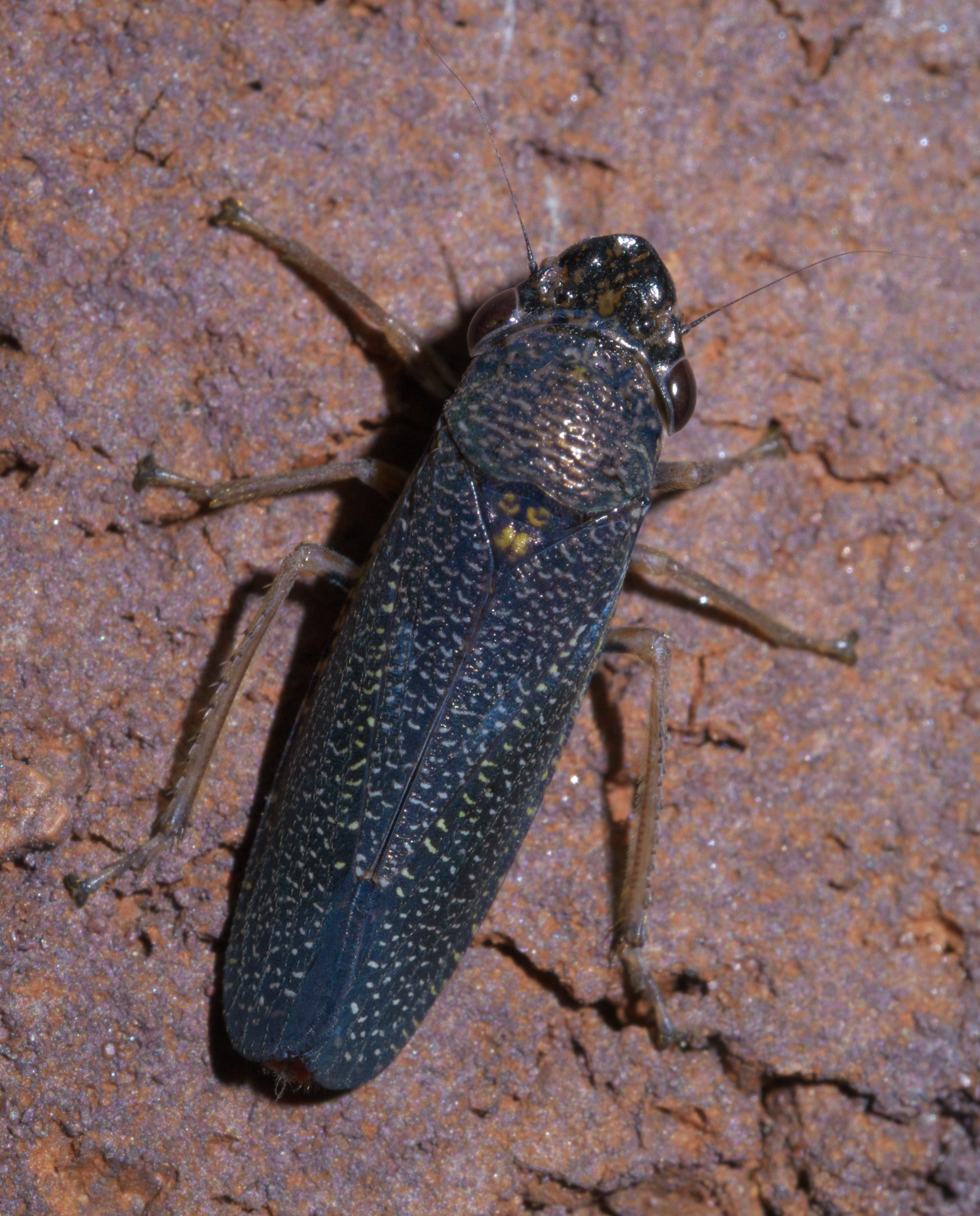 Paraulacizes irrorata, Speckled Sharpshooter, Size: 11.5 mm, ID Confidence: 88